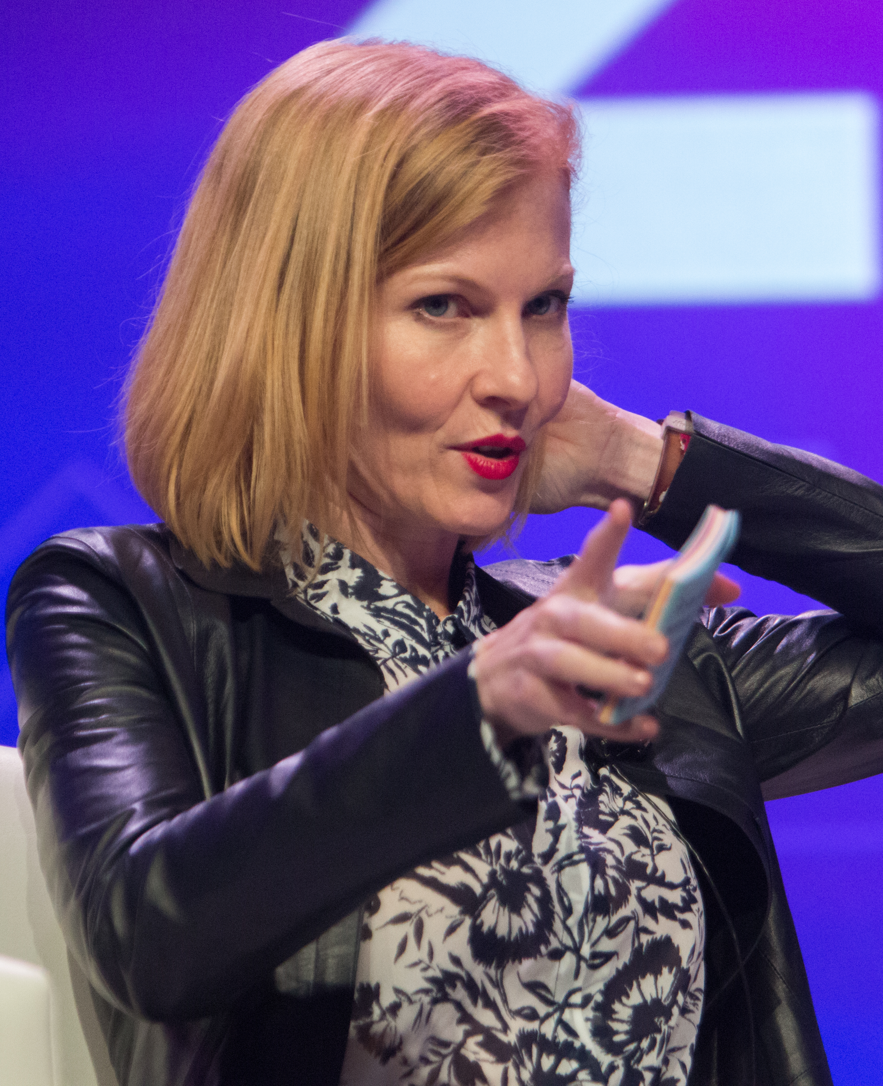 From the conversation Unprecedented: The Election That Changed Everything Photo: Ståle Grut/NRKbeta